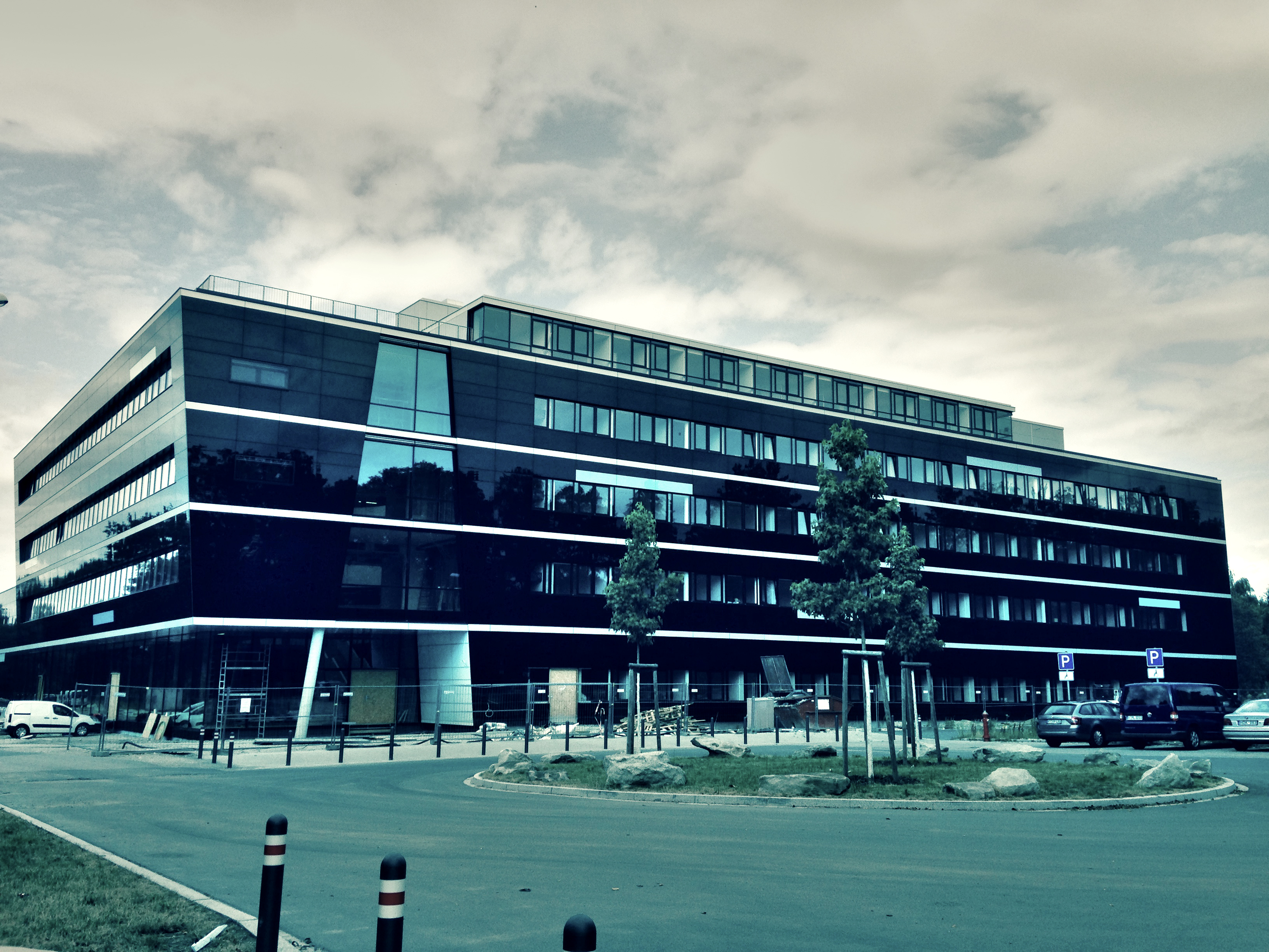 The Max Planck Institute for the Science of Light in Erlangen, Germany. The new main building of the newly founded institute in July 2015.